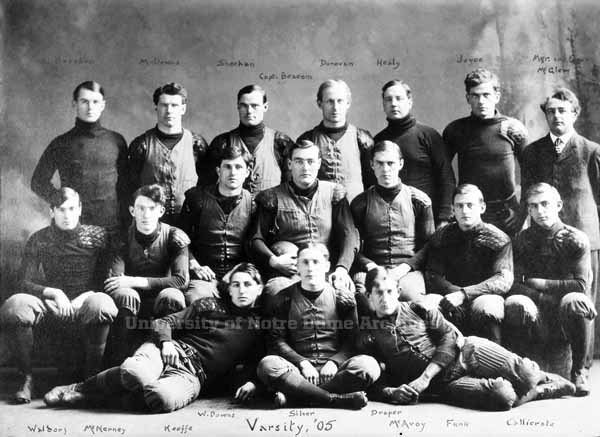 GBBY 81F/0560: Varsity Football Team, 1905. Standing: Bob Bracken, Morris Downs, Clarence Sheehan, Dick (Smoush) Donovan, Tom Healy, Tom Joyce, Manager and Coach Henry (Fuzzy) McGlew Middle row: Rufus Waldorf, Larry McNerny, Keefe, Captain Pat Beacom, Tom McAvoy, Art Funk, Dom Callicrate Front row: William (Bill) Downs, Nate Silver, Bill Draper [copy negative]